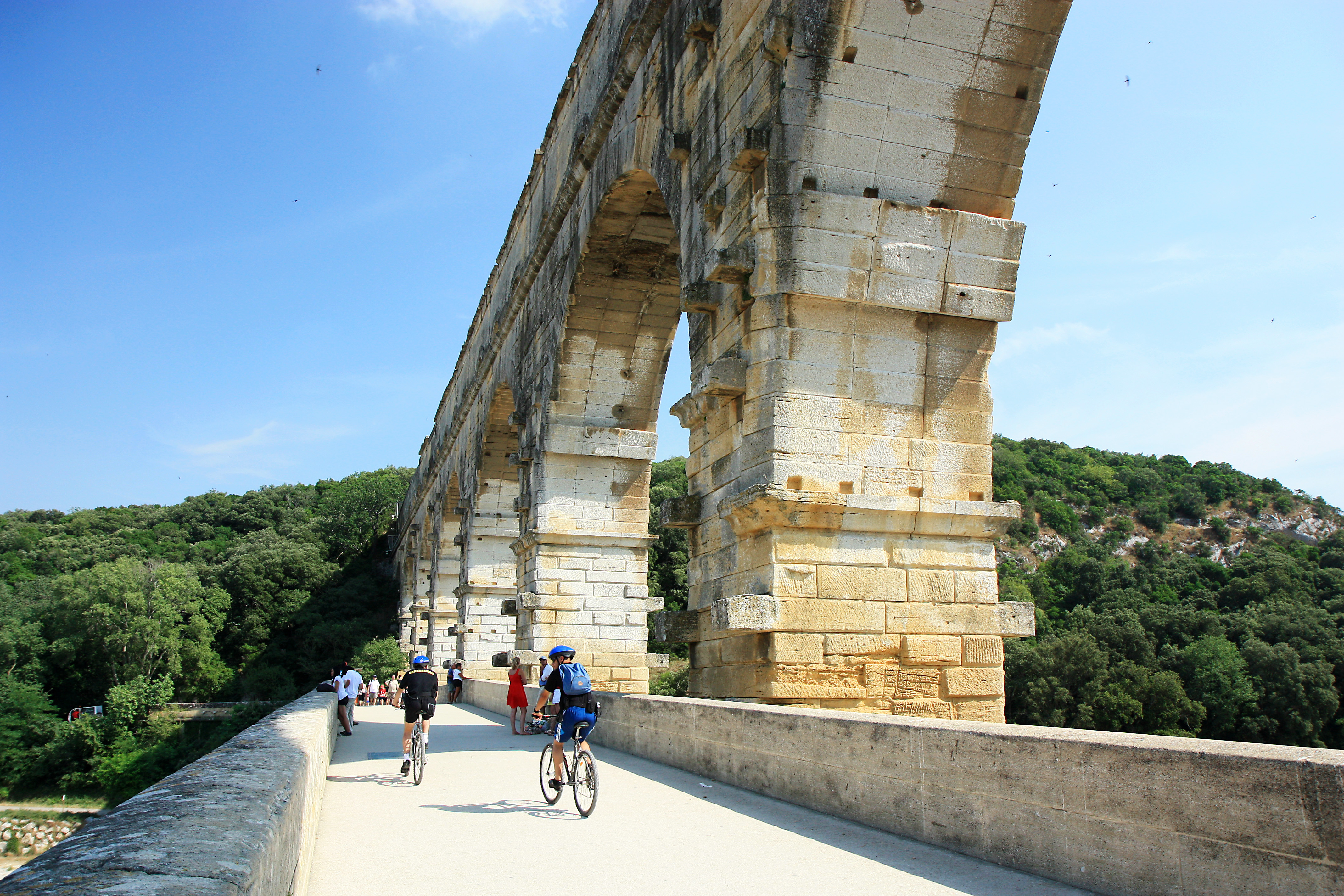 18th century road bridge (now closed to motor traffic) alongside the Pont du Gard